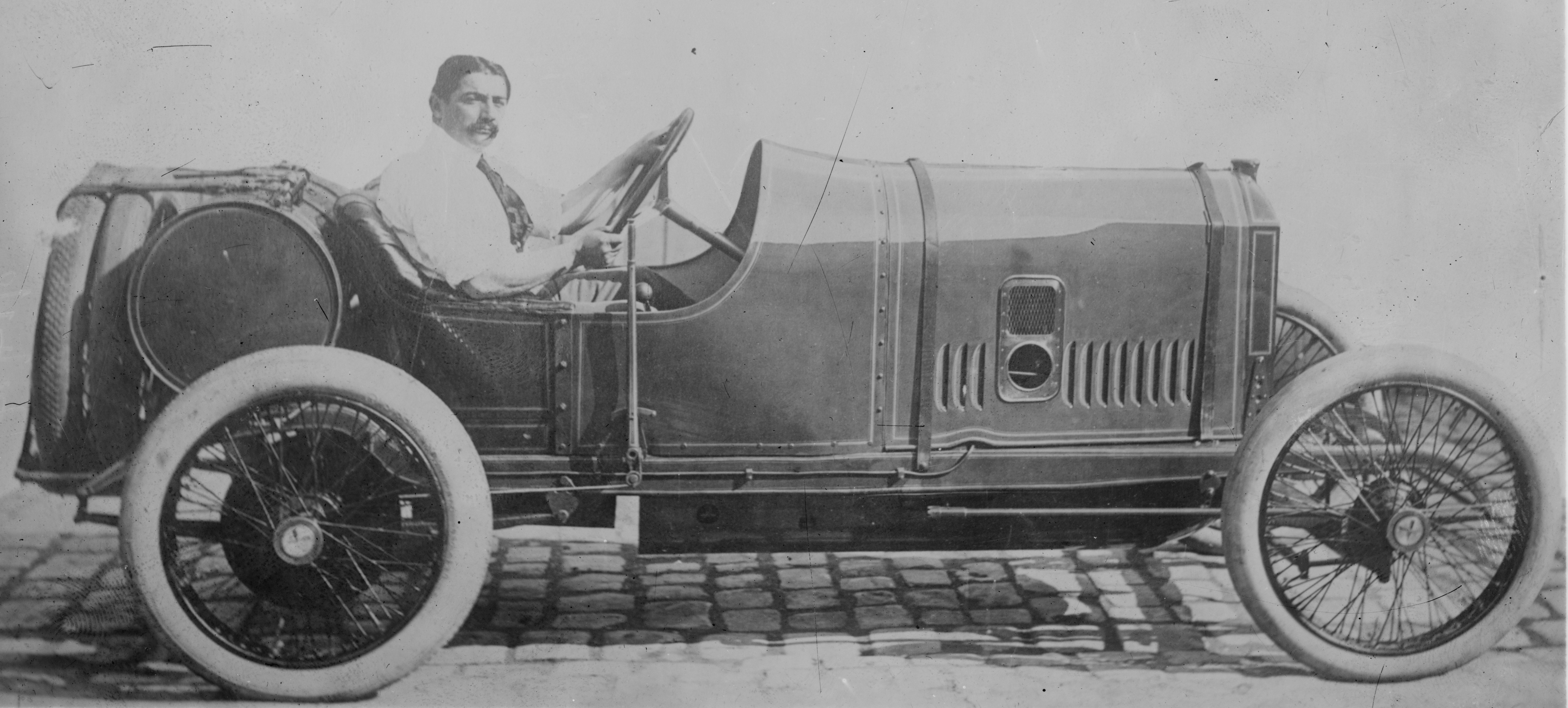 Georges Boillot (1884-1916)